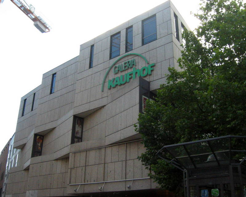 Kaufhof München Marienplatz